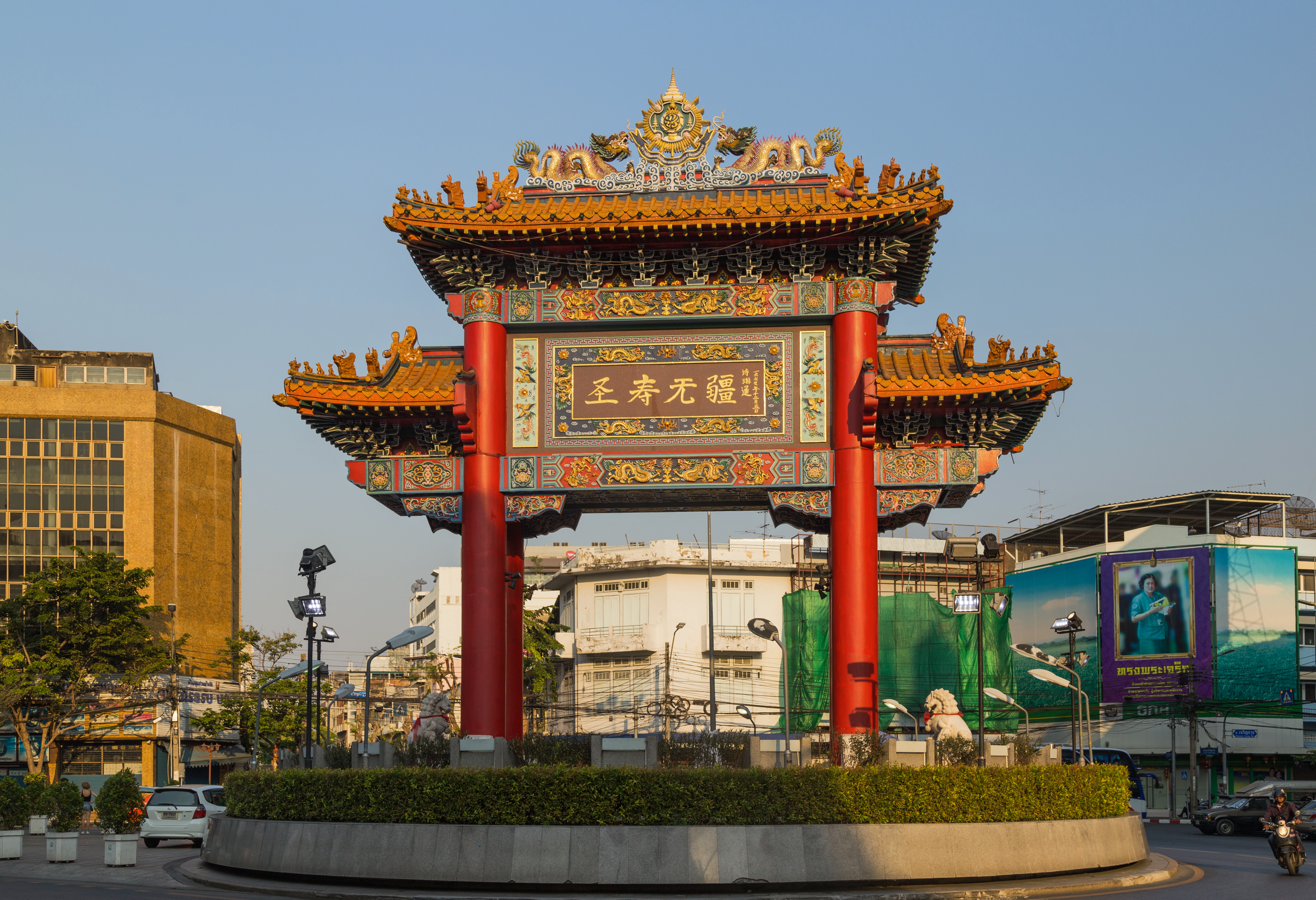 Chinatown Gate. Samphanthawong District, Bangkok, Thailand.